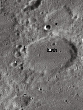 Buch lunar crater as seen from Earth with satellite craters labeled